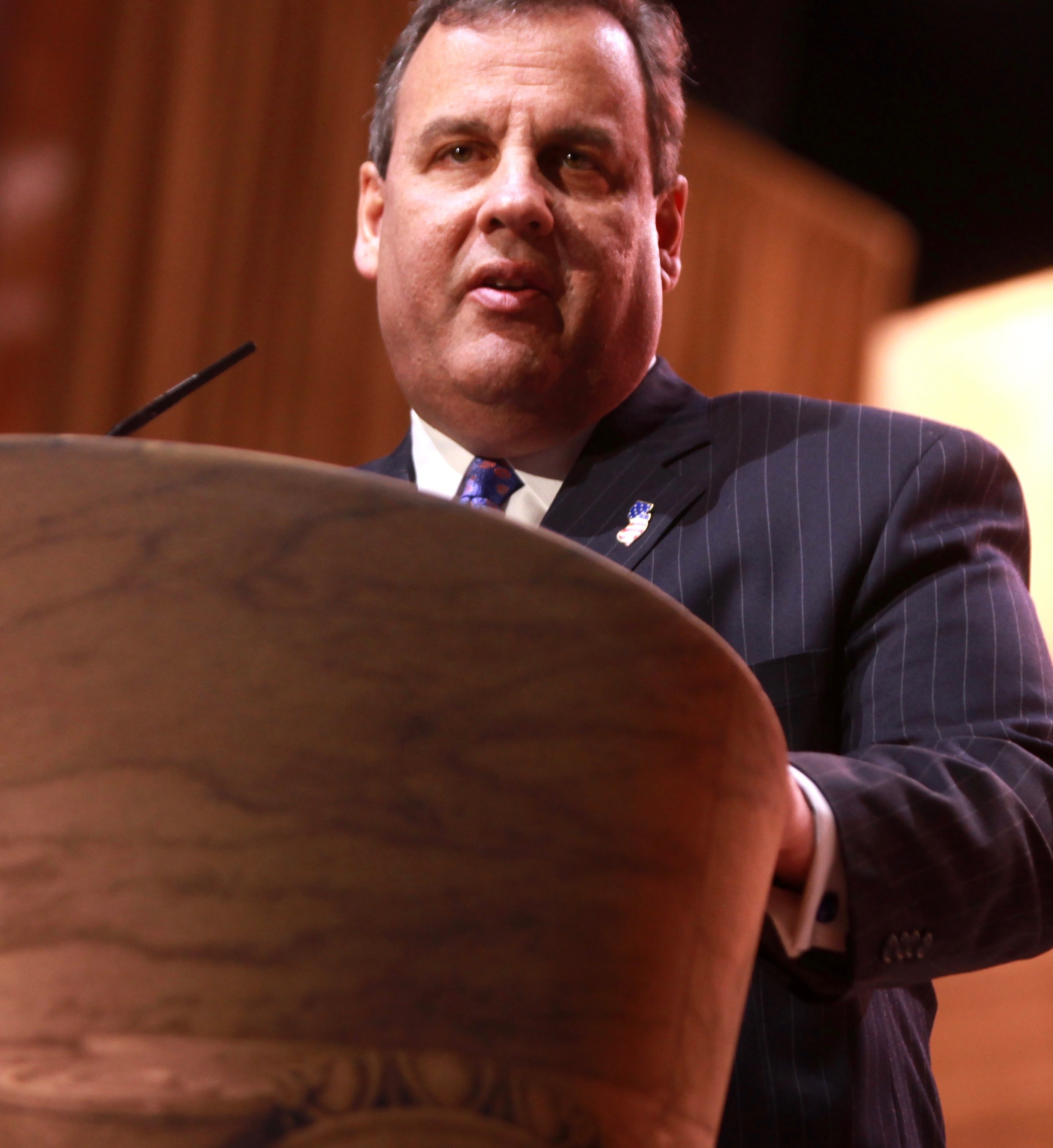 Chris Christie speaking at CPAC 2014 in Washington, DC.